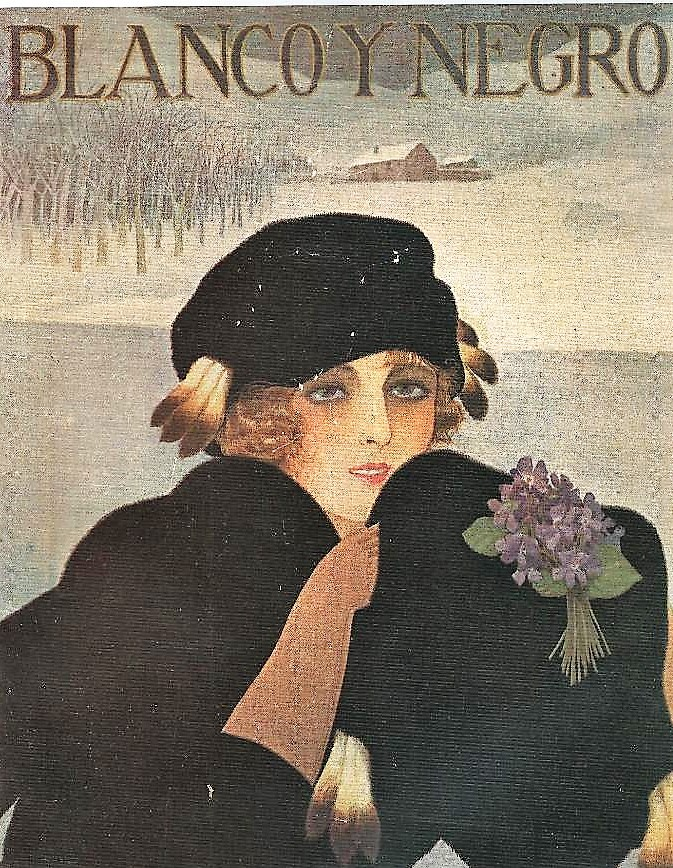 Portada revista Blanco y Negro. 30 de novembre de 1919.